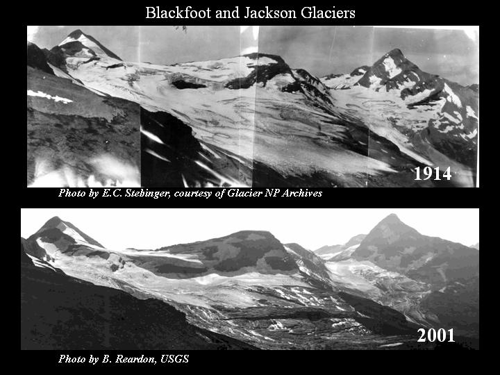 Jackson (at right) and Blackfoot Glaciers (on the left) in Glacier National Park (U.S.) as seen in repeat photography images. The top image shows the galciers as they appeared in 1914, while the lower image shows the level of retreat that had occured by 2001.